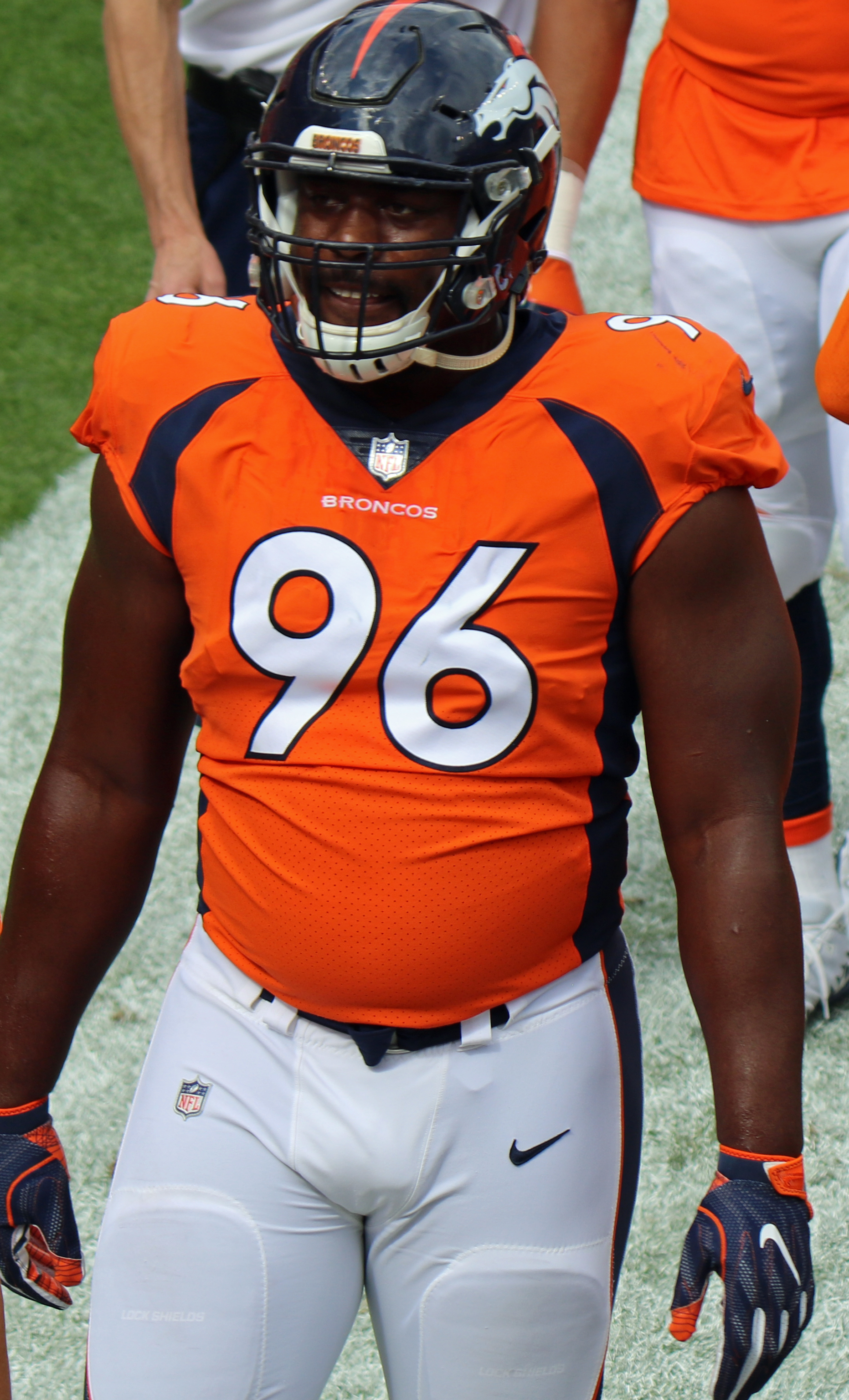 Shelby Harris, a player on the National Football League.